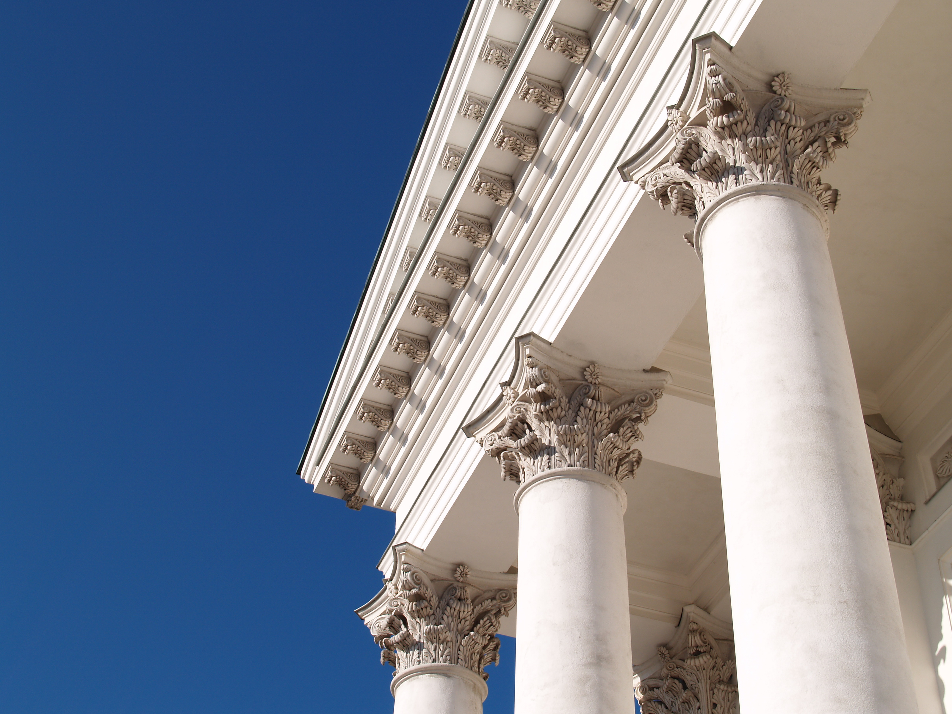 Corinthian order seen in Helsinki Lutheran Cathedral.